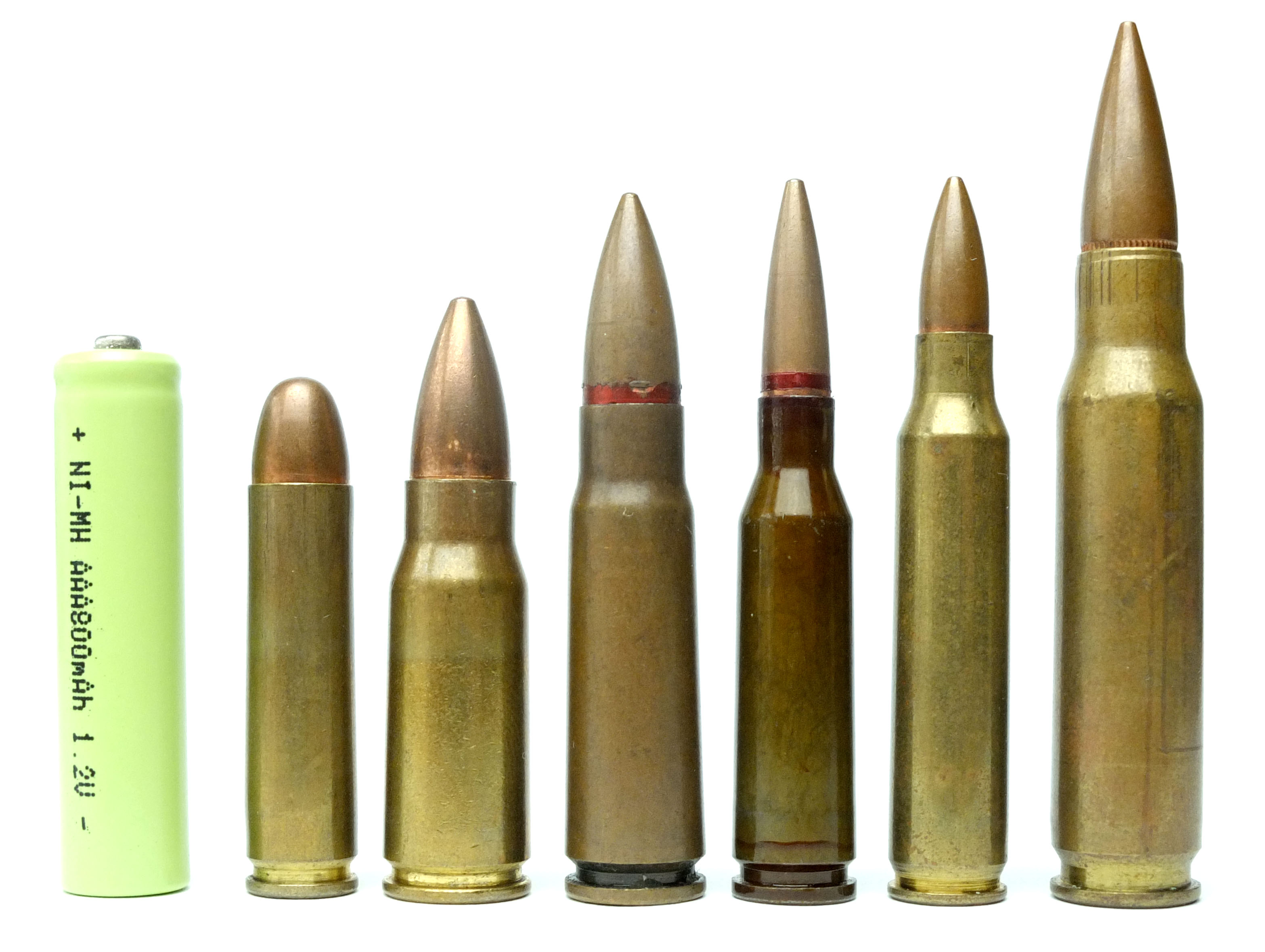 Cartridge Comparison .30 Carbine, 7.92x33mm, 7.62x39mm, 5.45x39mm, 5.56x45mm and 7.62x51mm NATO